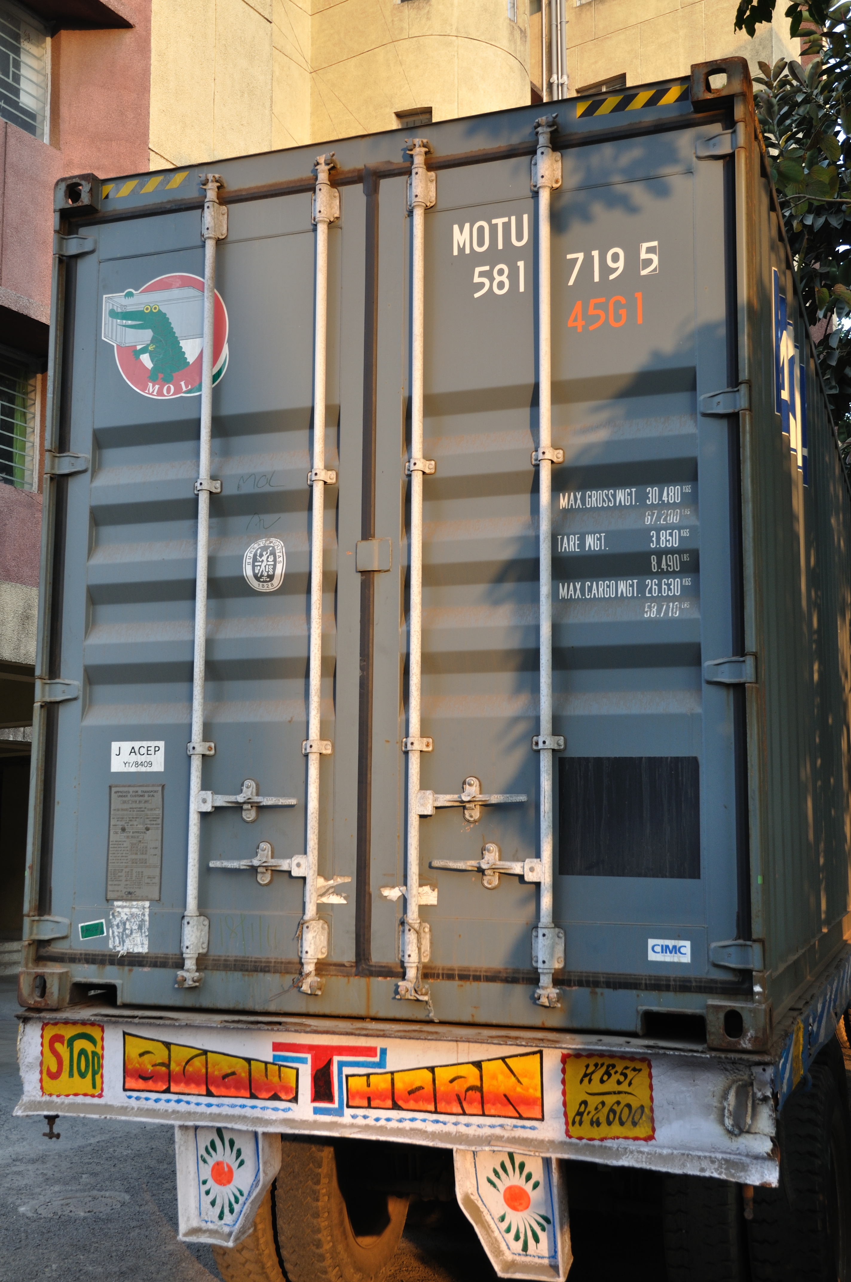 Detail of door and locking system of 40-foot or feet long, intermodal container or freight container (commonly known as shipping container, sea can, or conex box).